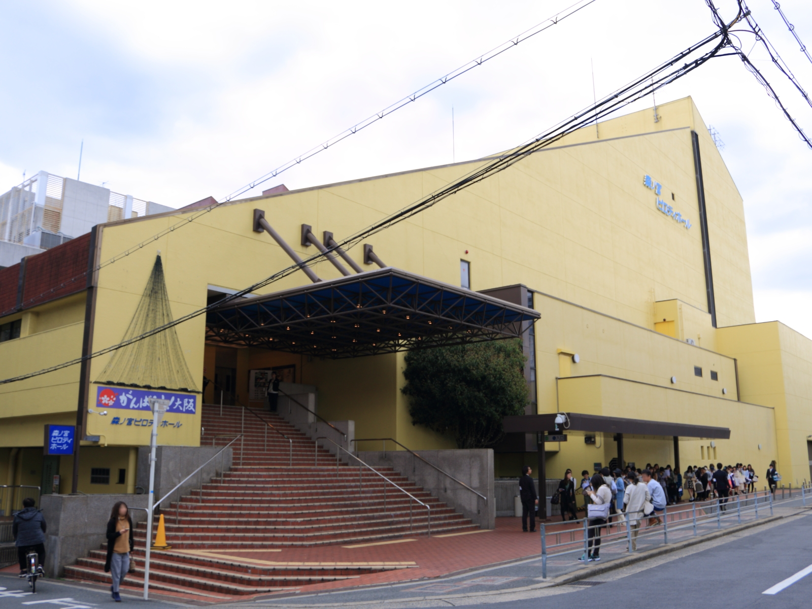 Morinomiya Piloti Hall.